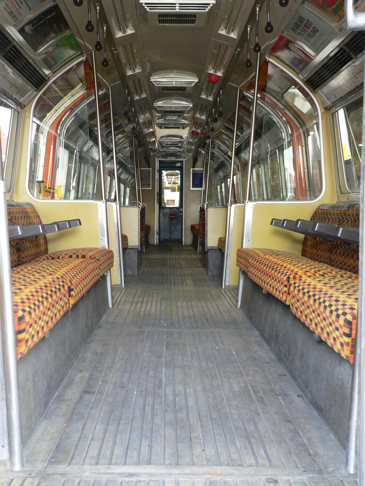 The interior of a London Underground 1983 tube stock train at London's Transport Museum Depot on 22 October 2005